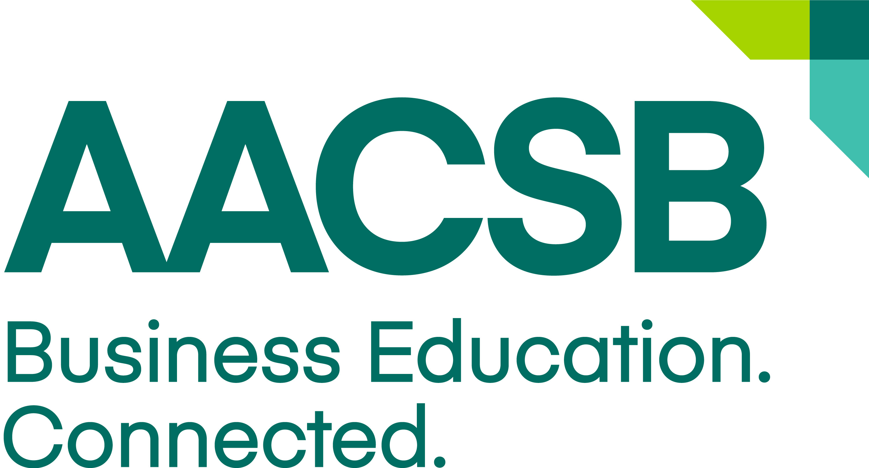 AACSB International Logo